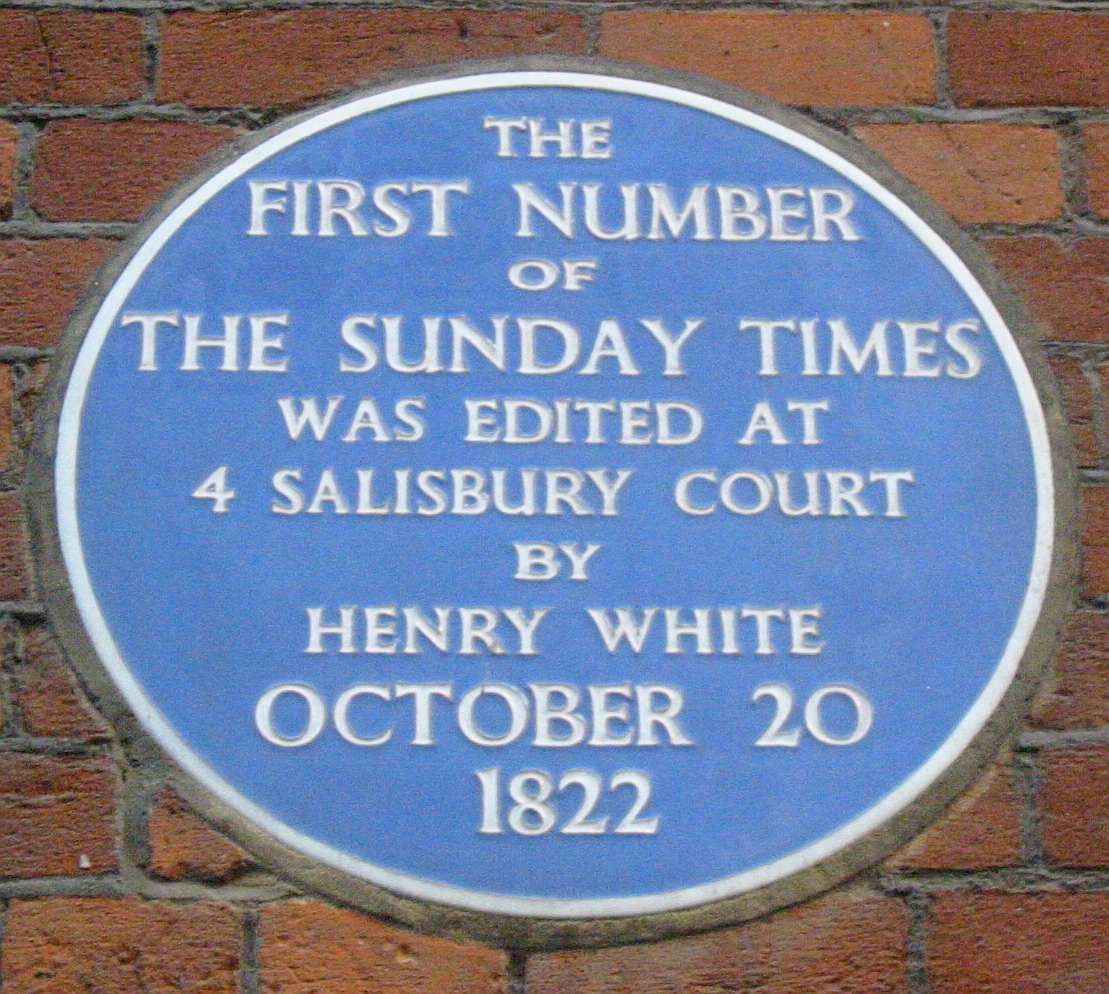 Plaque to The first number of The Sunday Times, 4 Salisbury Court, London EC4Y